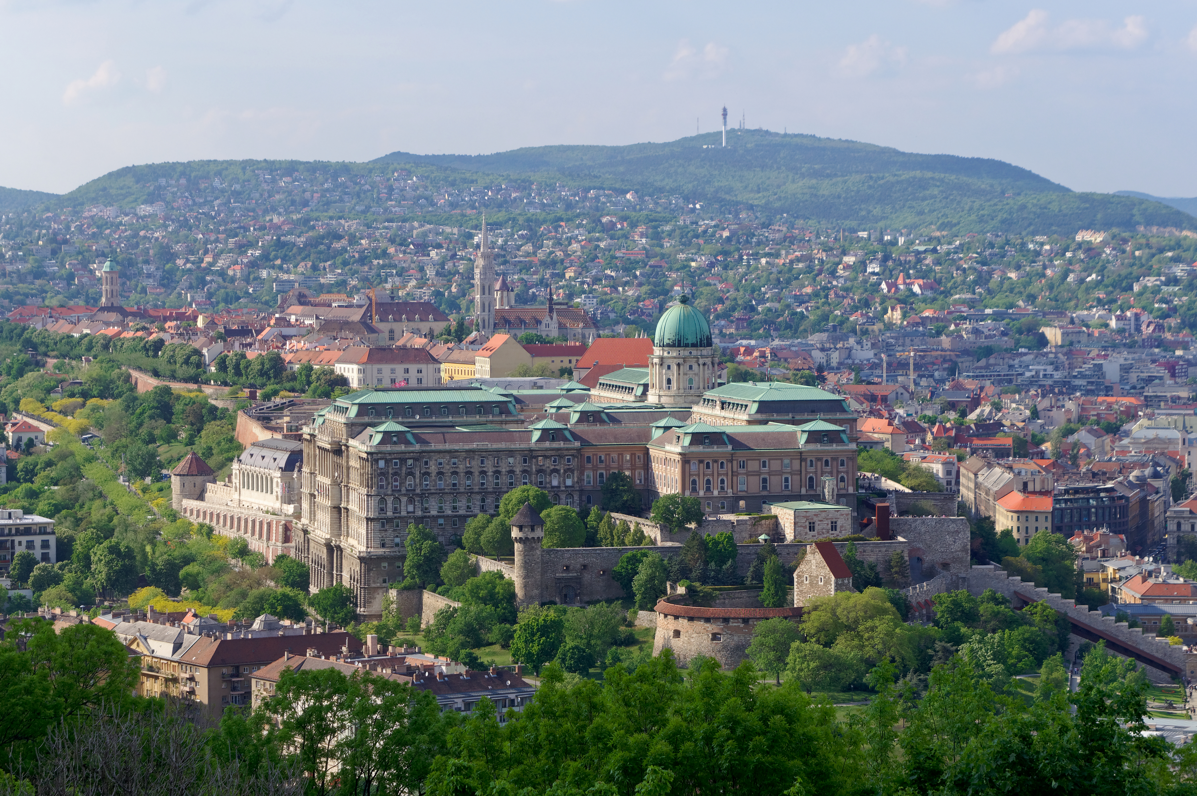 View of Buda Castle from Gellért Hill in Budapest